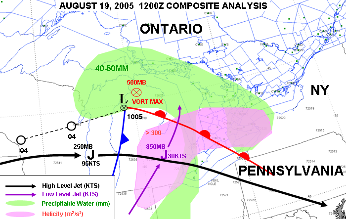 Situational weather map on the 19th of August 2005 over the Great Lakes bassin. A low pressure of Wisconsin brings an airmass containing 40 to 50 mm of precipitable water while a cold front extending toward the southwest, a low level jet-stream and the left entrance of and upper air jet will all serve as triggers for strong convection. The result will be lines of thundertorms over Southern Ontario, some of which will give tornadoes and/or heavy downpours. Maps done using National Weather Service and Meteorological Service of Canada climatological data.